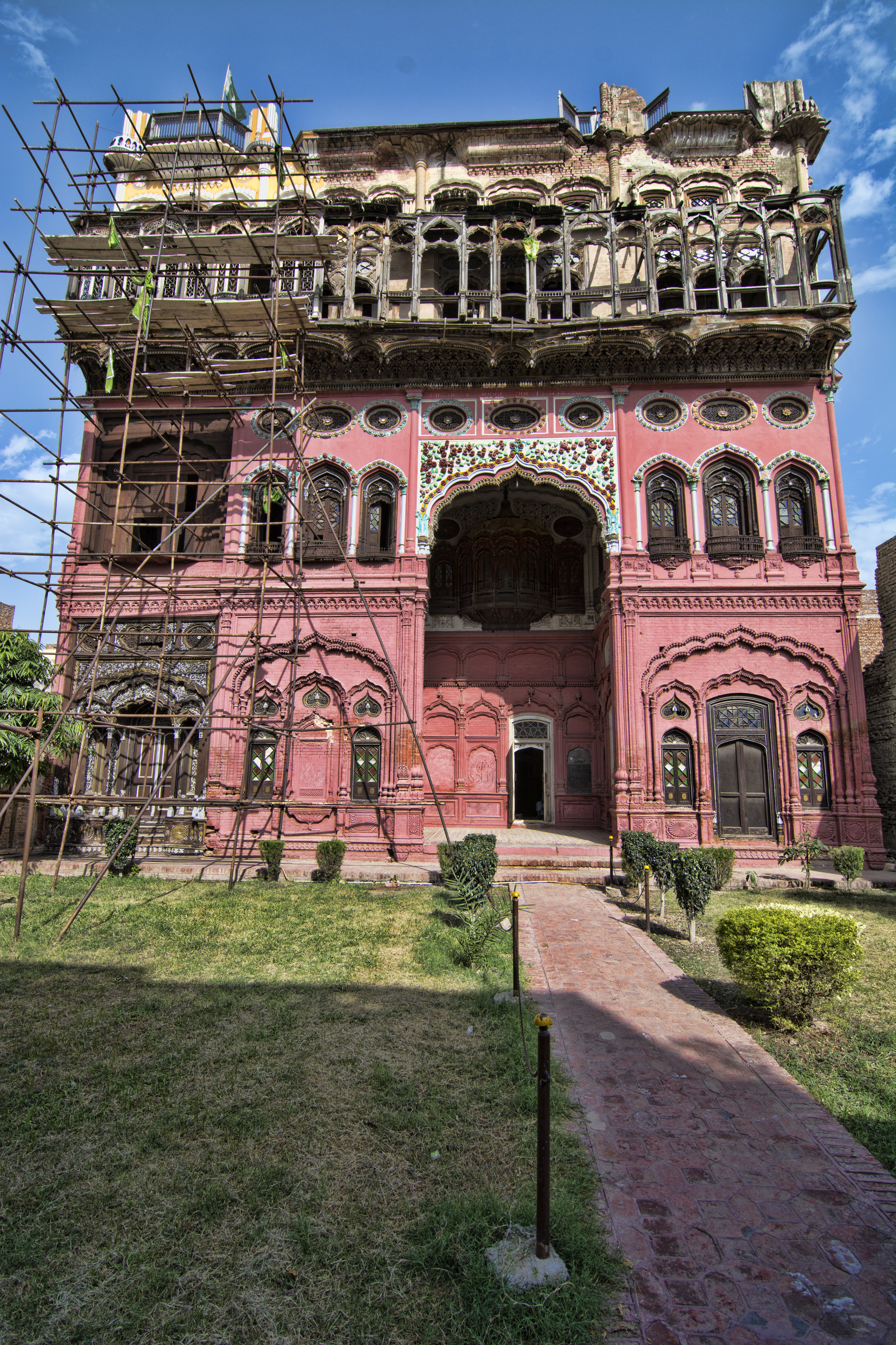 Omar Hayat Mahal (Gulzar Manzil) This is a photo of a monument in Pakistan identified as the PB-P-2